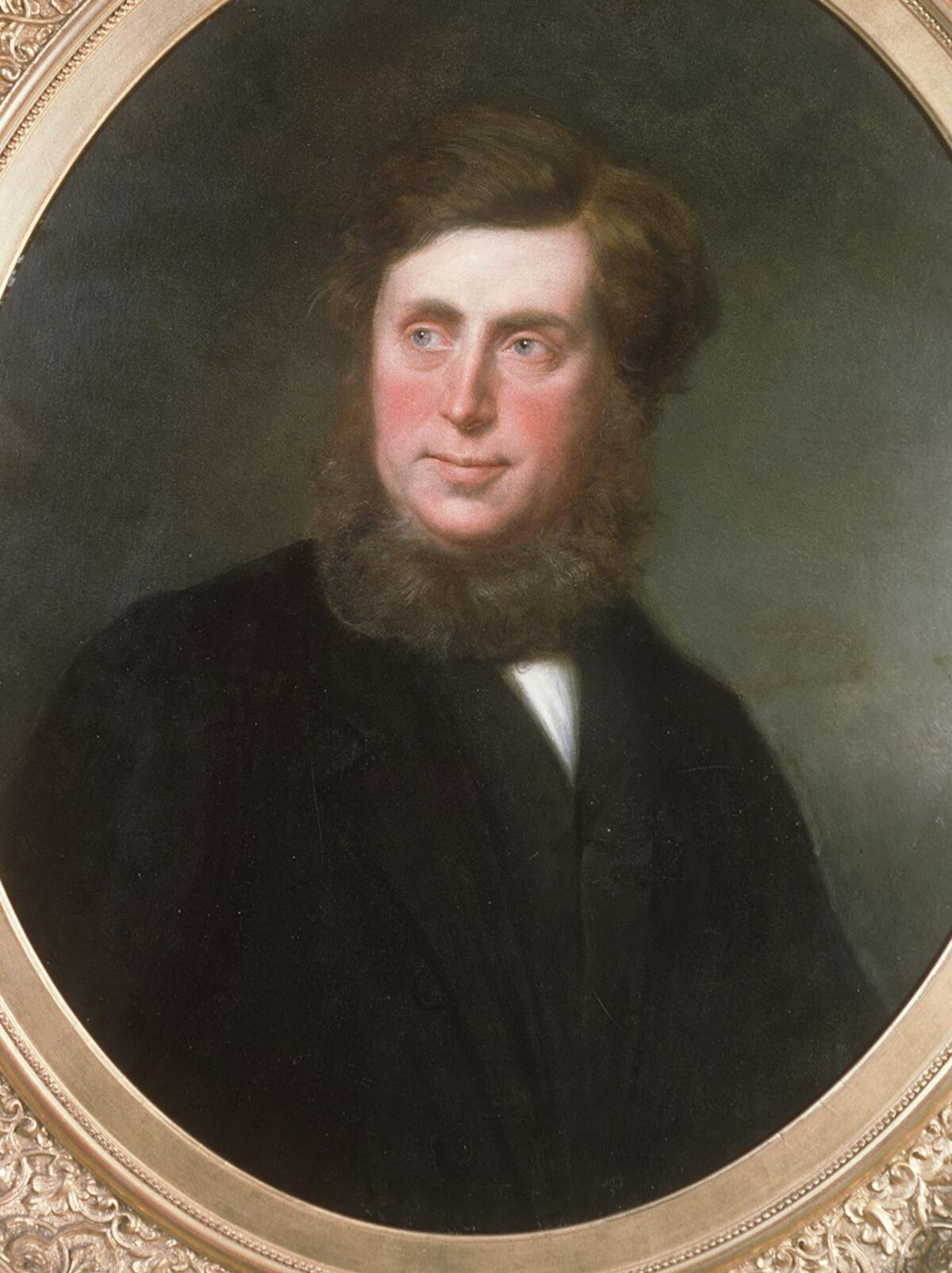 A painting from the Framed Works of Art collection at the National Library of wales.